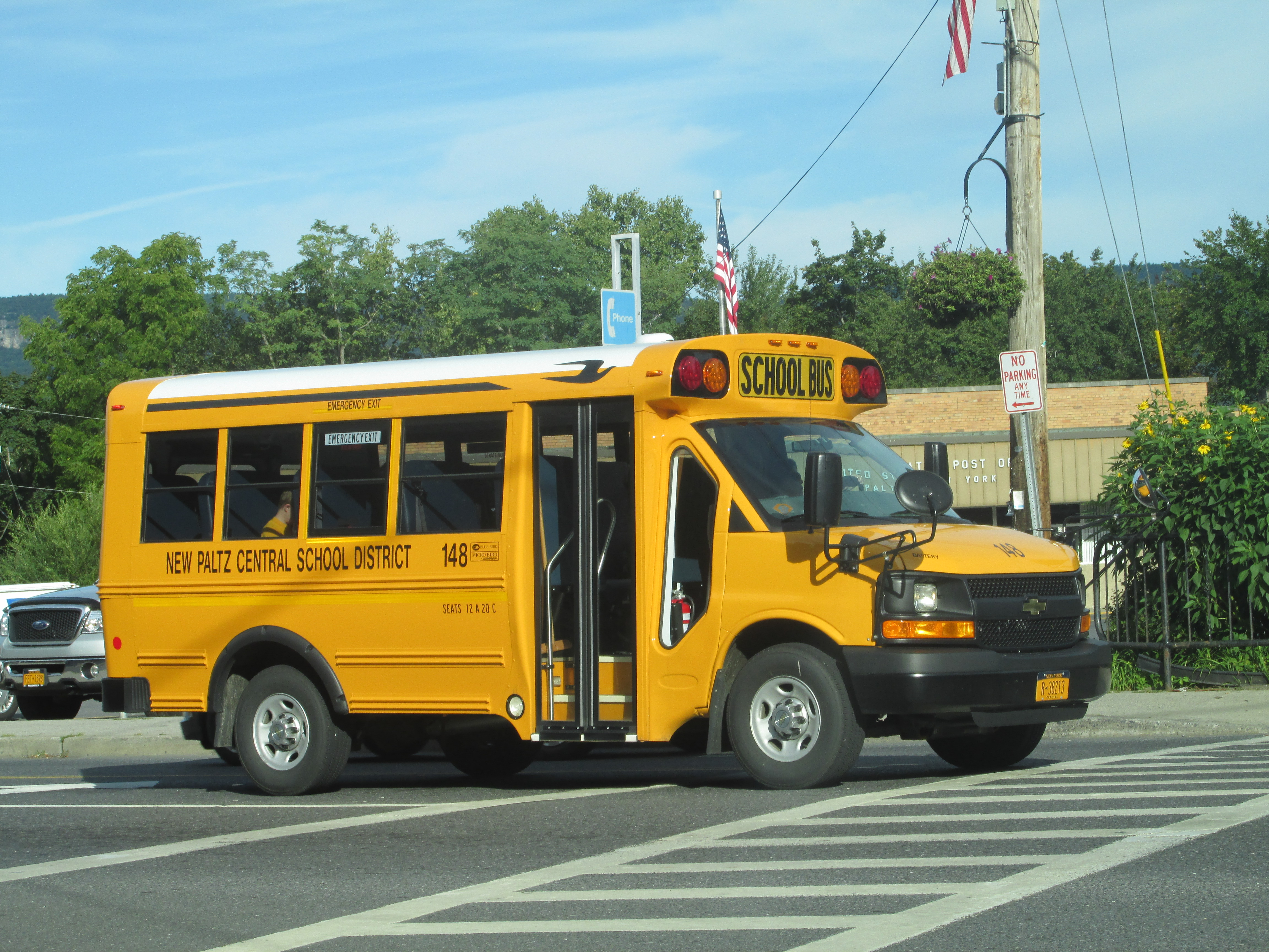 A photograph of a school bus in New Paltz, New York. The bus is a Micro Bird, Inc. (Blue Bird/Girardin) MB-II on a 2011-2013 Chevrolet Express 3500SRW cutaway van chassis.